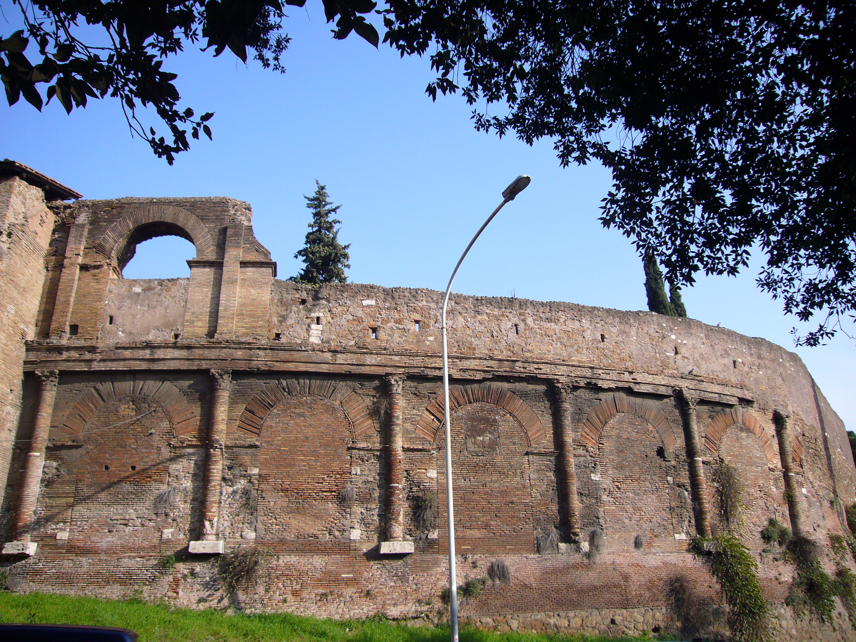 Roma, Anfiteatro Castrense by Lalupa